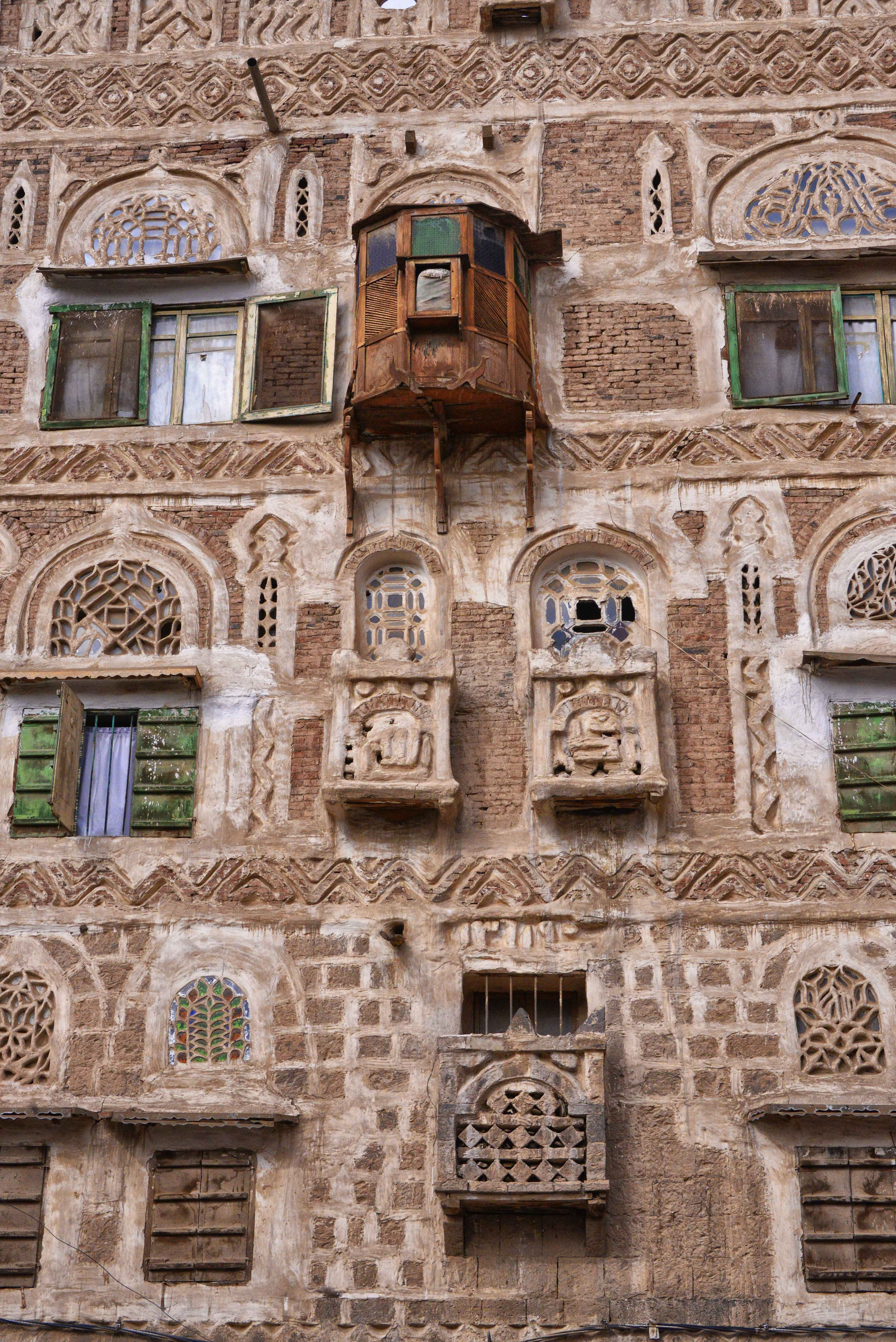 House Details, Sana'a, Yemen